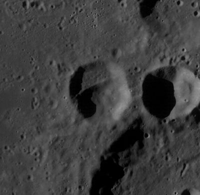 LROC image WAC No. M118470866ME (crater is at centre of image), at the right margin is crater Ramon. Calibrated by LROC_WAC_Previewer.